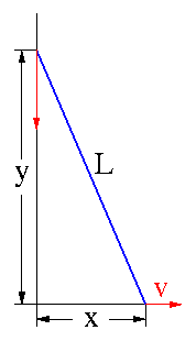 Faallacy of the falling ladder: The top of the ladder touches the wall and the bottom of the ladder is pulled along the x-axis by a constant velocity. Then the velocity of the top of the ladder will go to infinity when the ladder approaches the horizontal position.